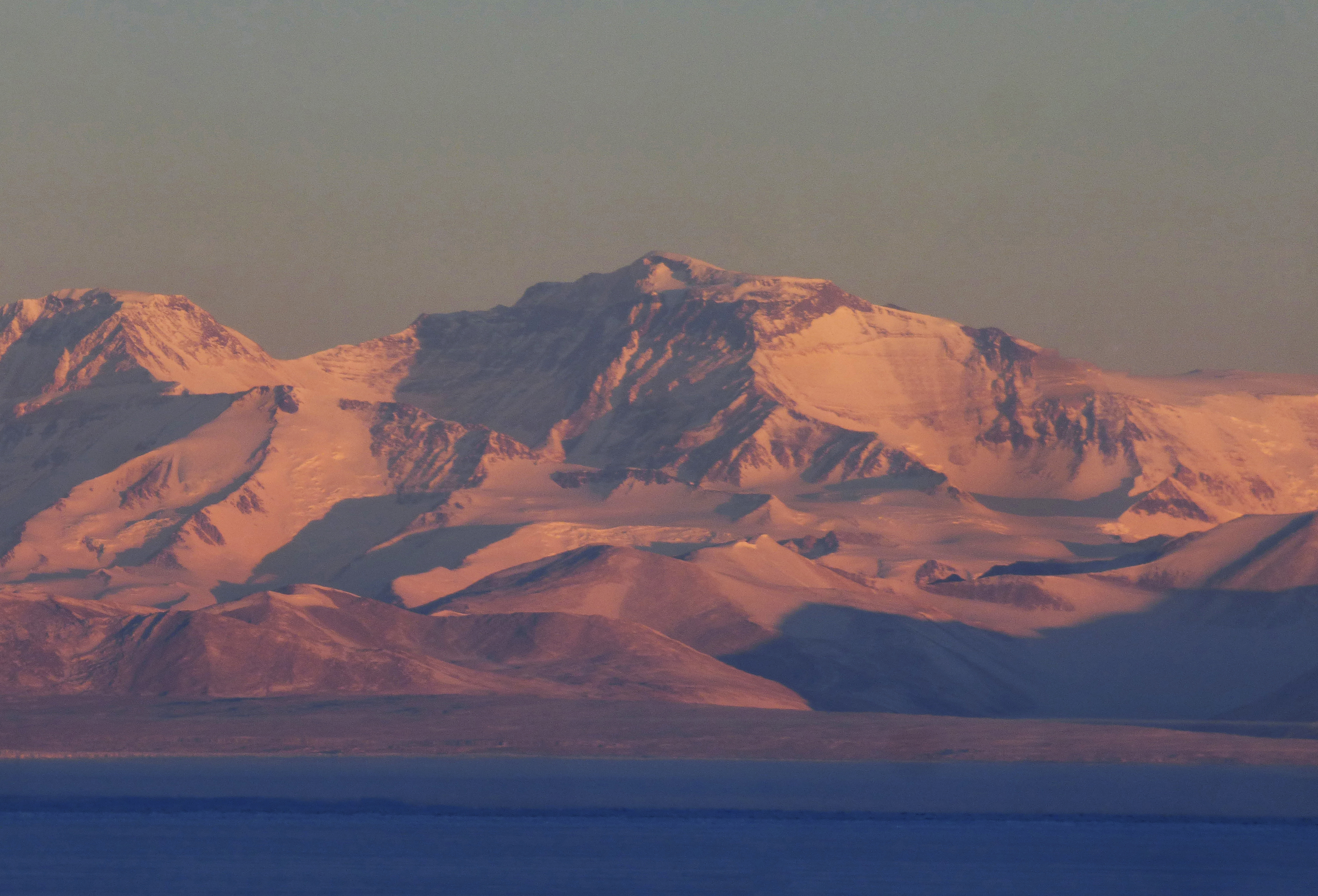 Mount Lister seen from Ross Island, across McMurdo sound